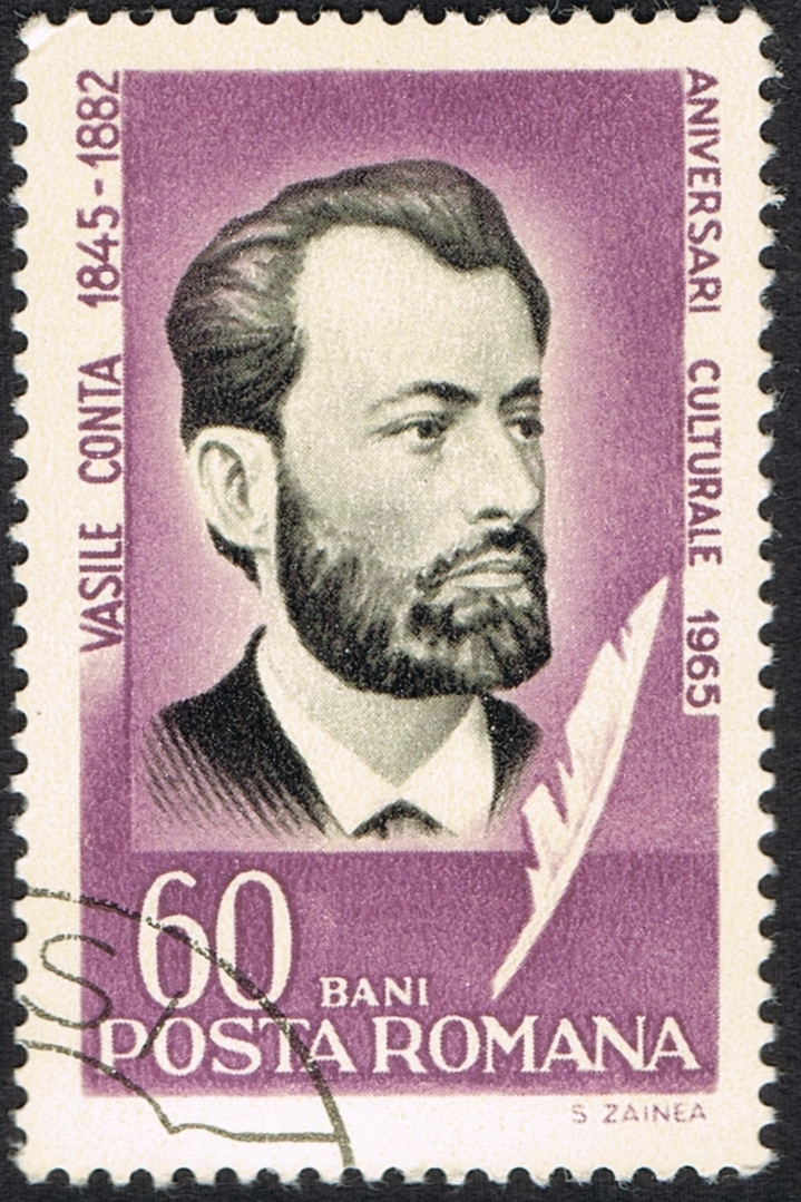 scanned stamp from Rumanian post (Posta Romana), stamp of Vasile Conta, philosopher, (1845 - 1882), Michel stamp catalogue (East-Europe part 4) number: 2398